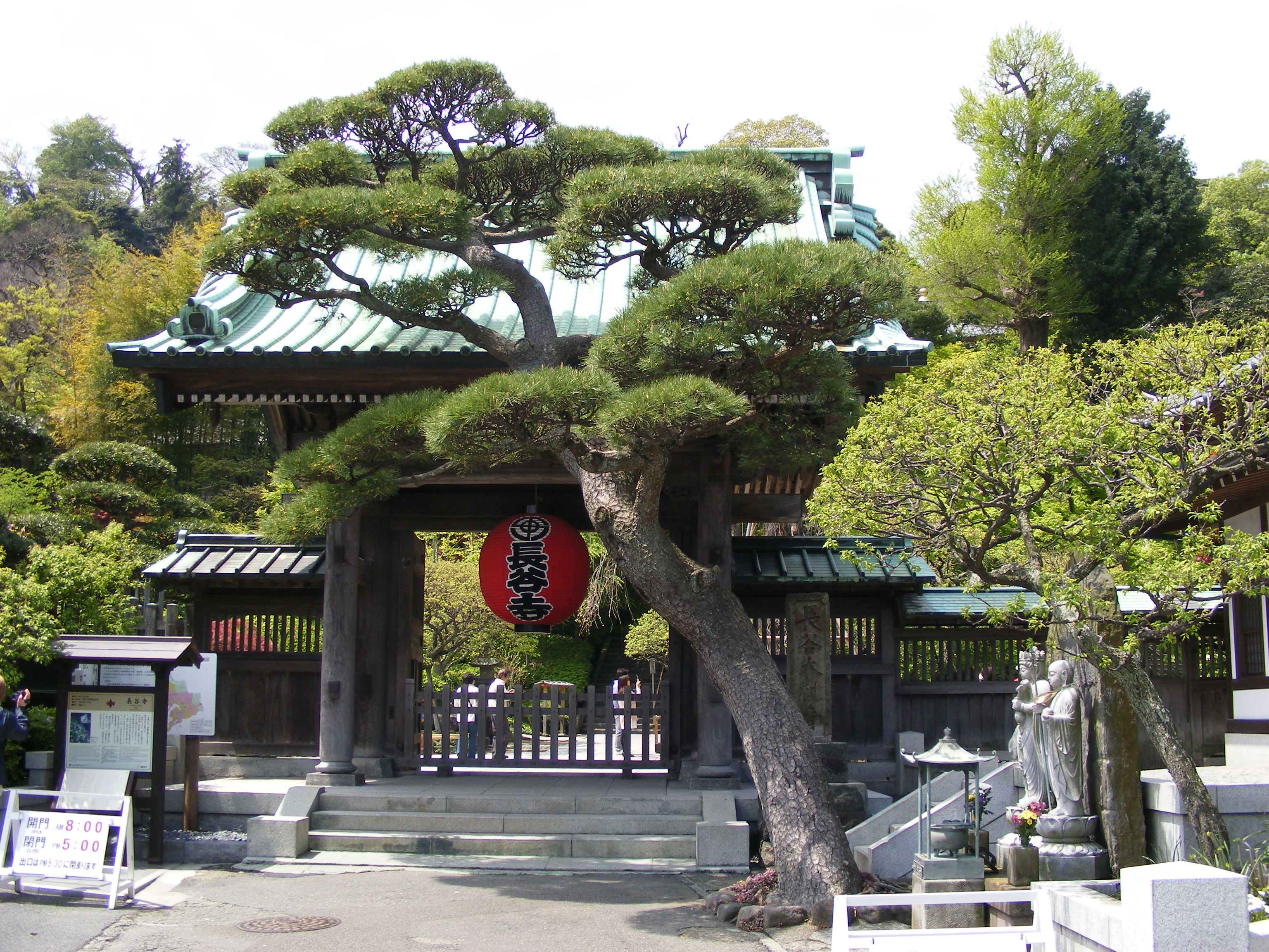 Sanmon gate of Hase-dera temple in Kamakura, Kanagawa